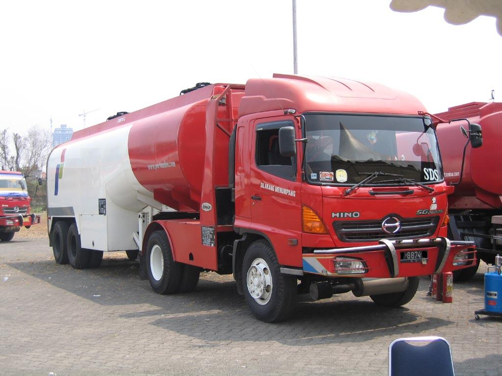 Hino Jumbo Ranger SG260J Tank Lorry Tractor. Photo by Celica21gtfour.